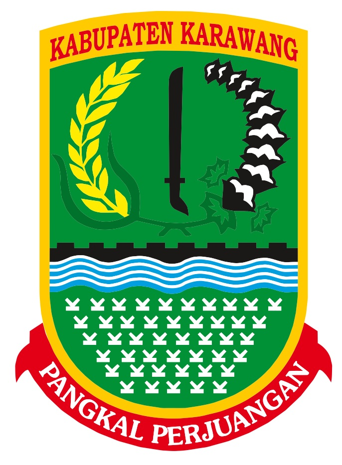 THE MEANING OF THE SYMBOL "Basic Colors Green, Rice and Cotton" - Symbolizes Prosperity and Welfare which is always realized in Karawang Regency. "Pintu Pintu" - Symbolizes Karawang as an agricultural area with technical watering. "117 points of rice, 8 of Doors, Rice Plant or Swamp 45" - Describes the fighting spirit in upholding the Independence of the Republic of Indonesia. "Lubuk Machete" - symbolizes the enthusiasm of the Karawang regency to never give up in emblems of the country and the nation. "10 of Cotton Flower" - symbolizes the 10 Maulud Ladder of Alif Year 1,555 (Java System) or 10 Rabbiul Awal 1043 H as Anniversary of Karawang Regency. "Grooves white 4 lines" - Describes that the IV Century of the Tarumanegara Kingdom has placed the Citarum River as a Transportation route. (Regency of Karawang Regulation Number 8, 1994)